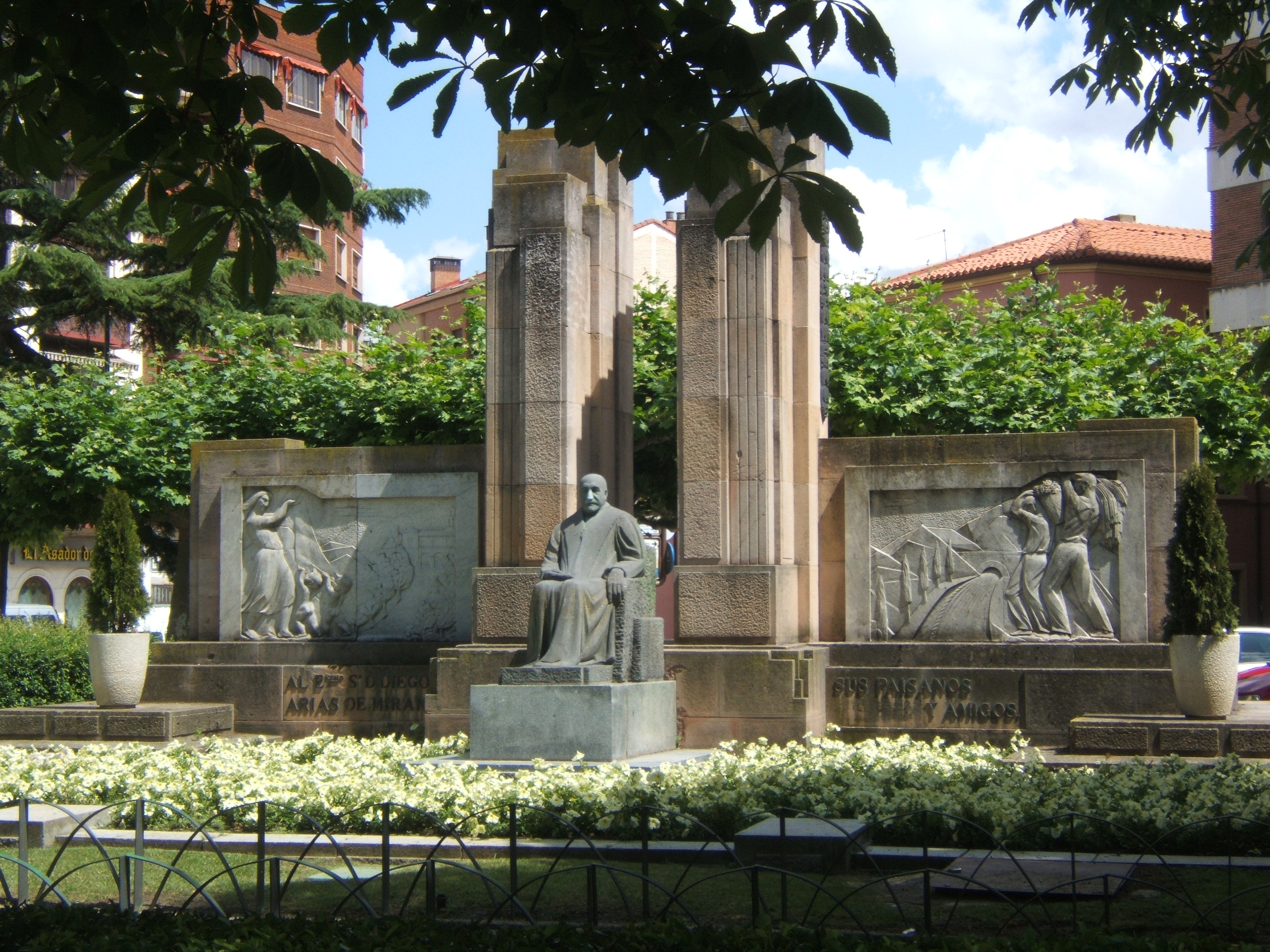 Works by Emiliano Barral (1896-1936).